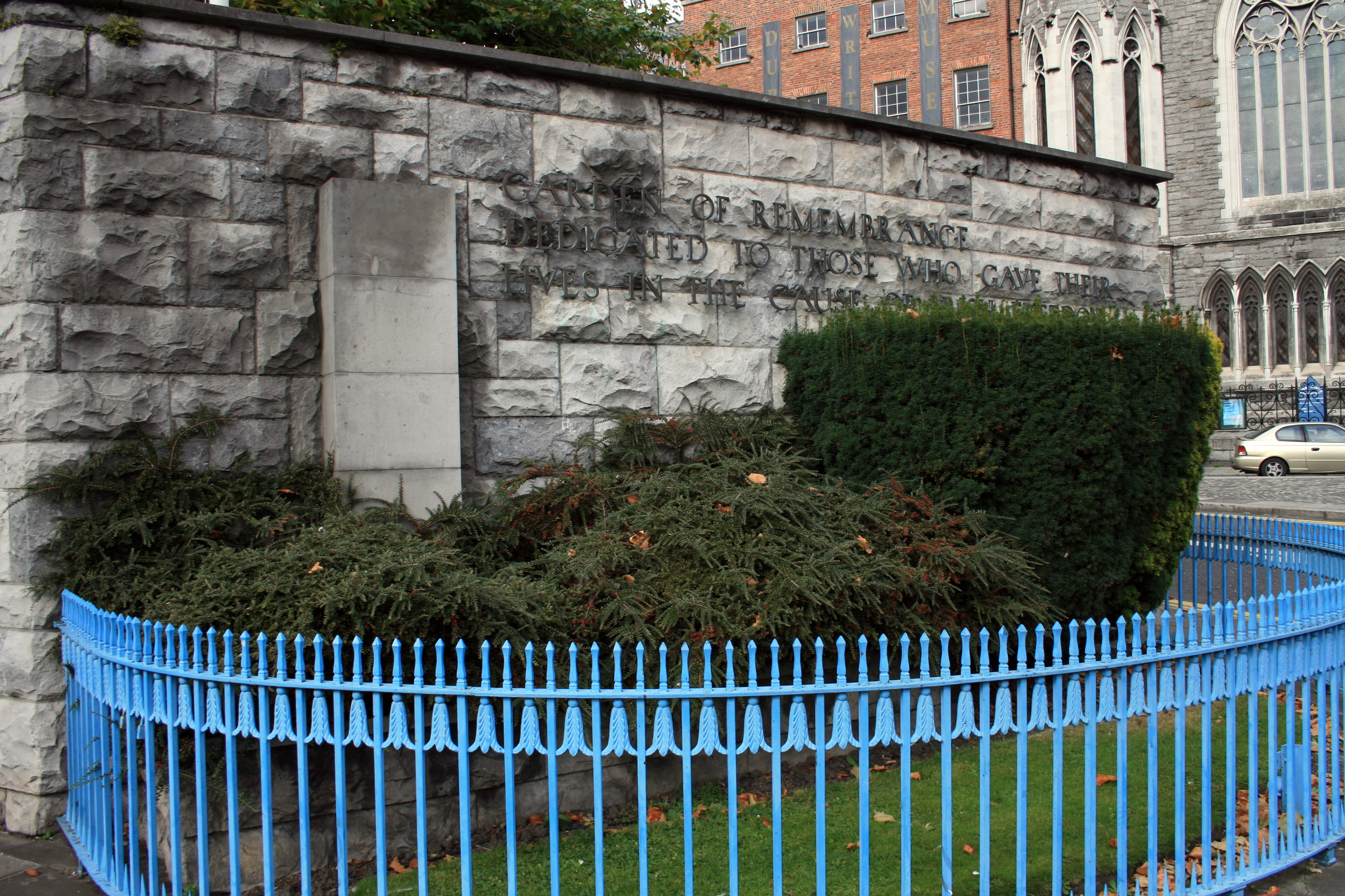 Ireland, Dublin: Entrance to the Garden of Remembrance; english inscription. The Dublin Garden of Remembrance is dedicated to the memory of "all those who gave their lives in the cause of Irish Freedom".